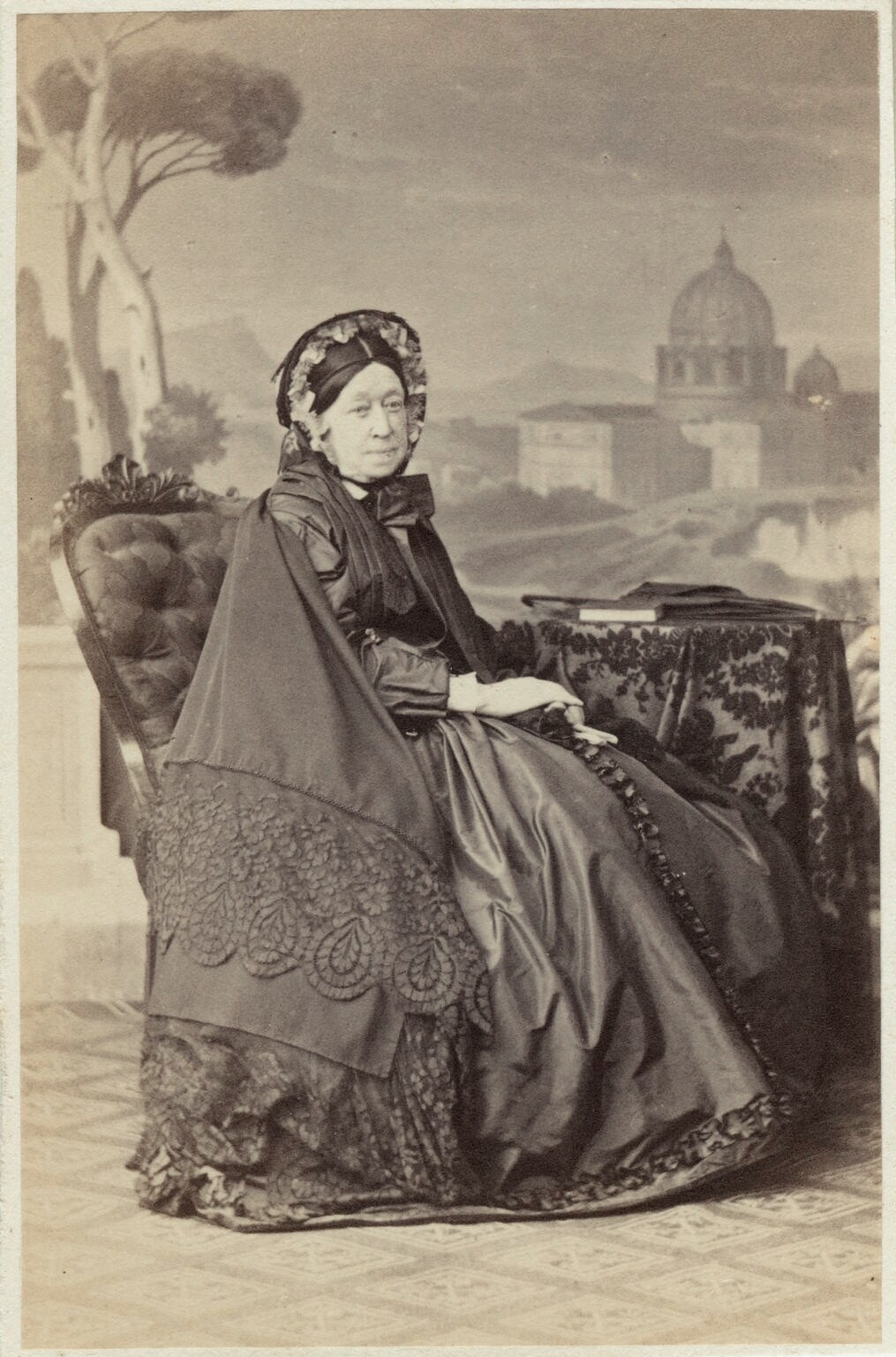 Marie Louise Pelline (née de Dalberg), Countess Granville (1812-1860), daughter of Emmerich Josef Wolfgang Heribert, Duke of Dalberg; wife of 2nd Earl Granville; former wife of Sir Richard Acton, 7th Bt (1801-1837)